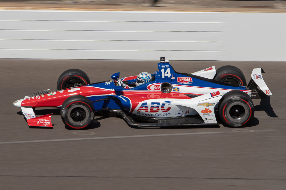 Tony Kanaan during practice for the 2018 Indianapolis 500